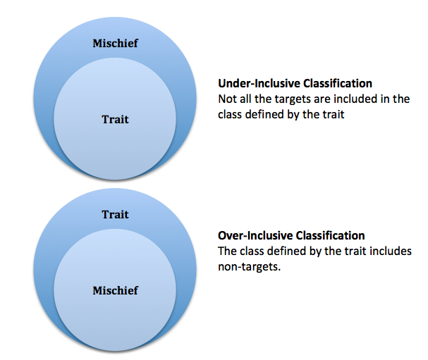 A diagrammatic representation of the concepts of over-inclusiveness and under-inclusiveness of classification in equal protection analysis under constitutions such as the Constitution of Singapore (Article 12(1)) and the United States Constitution (the Equal Protection Clause).